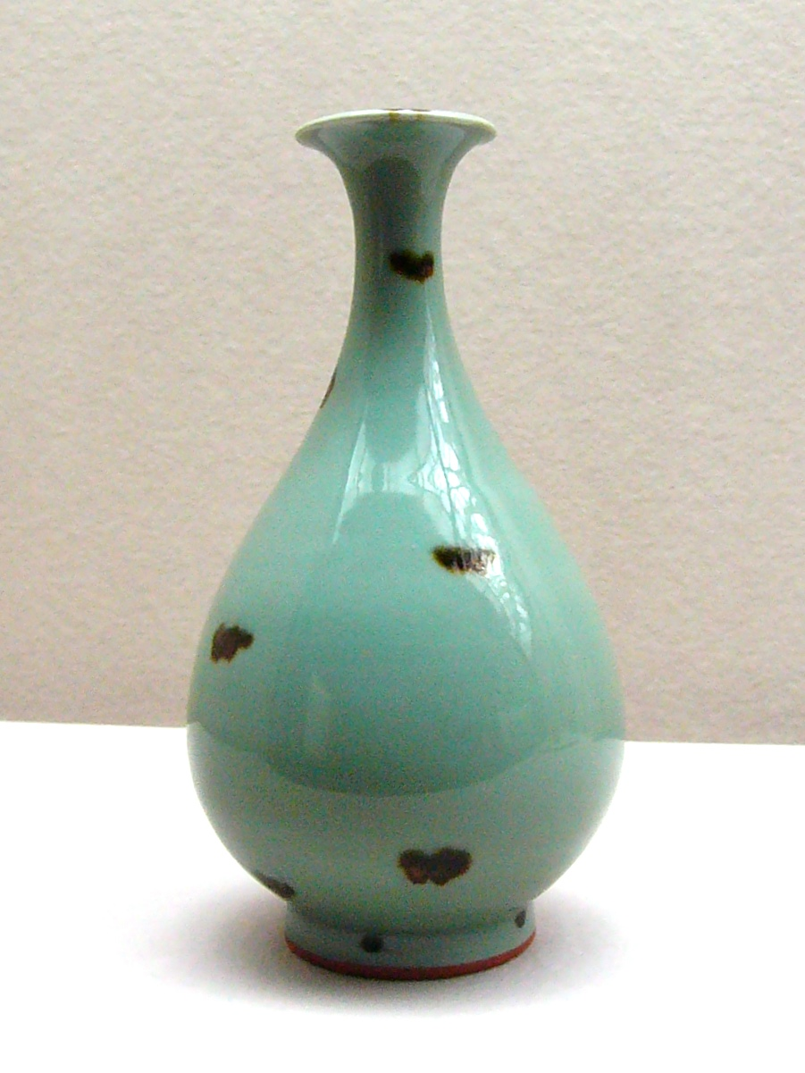 Celadon flower vase with iron brown spots, pear-shaped bottle. Longquan ware, Yuan Dynasty (13–14th century), height: 27.4 cm. Edo period, inherited in Konoike family in Osaka, today Museum of Oriental Ceramics, Osaka, Japan.